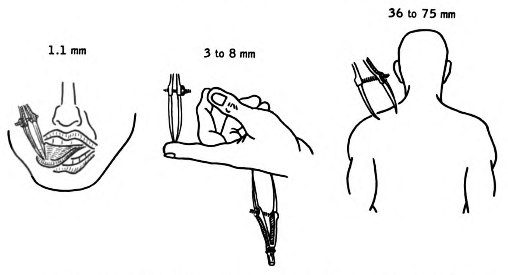 Anatomical illustration of the human nervous system from the 1960 book A functional approach to neuroanatomy